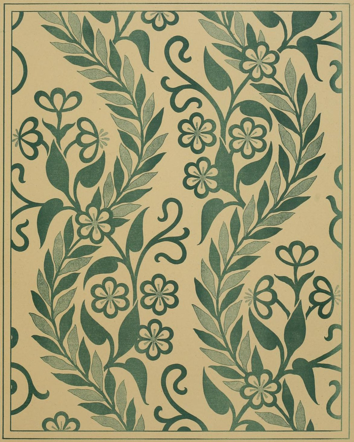 Plate III Original description: Design for curtains, to be worked in two shades of blue, in crewels on linen or Bolton sheeting. This design may be worked in its present scale, or it may be enlarged if desired.